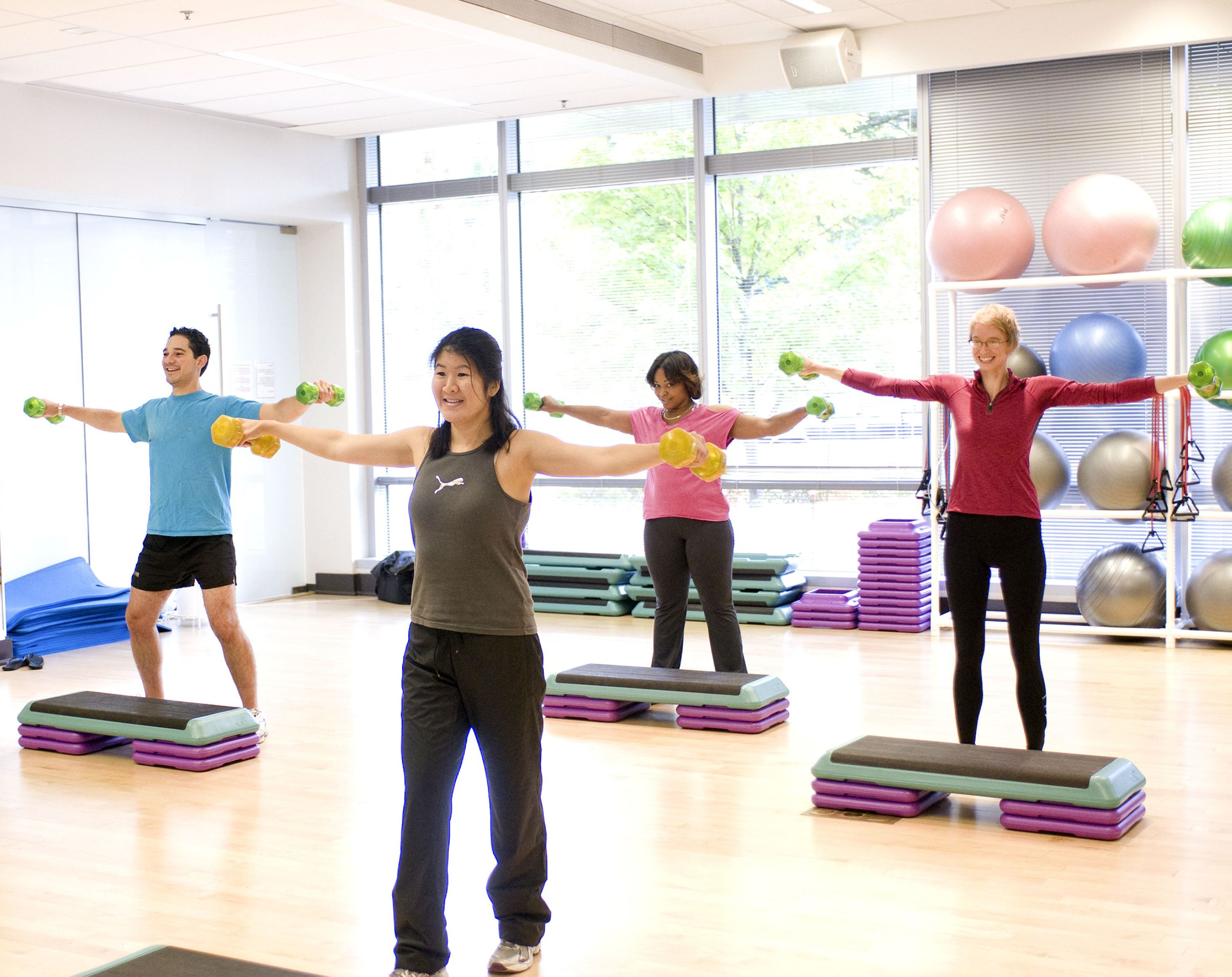 Aerobics using dumbells